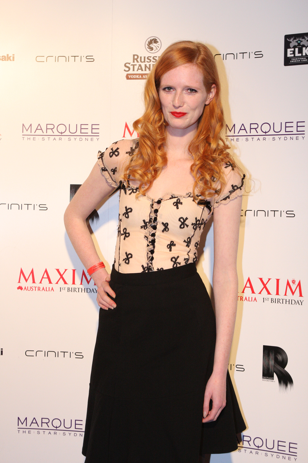 Alice Burdeu at party for Maxim magazine's 1st birthday at The Star, Sydney, Australia